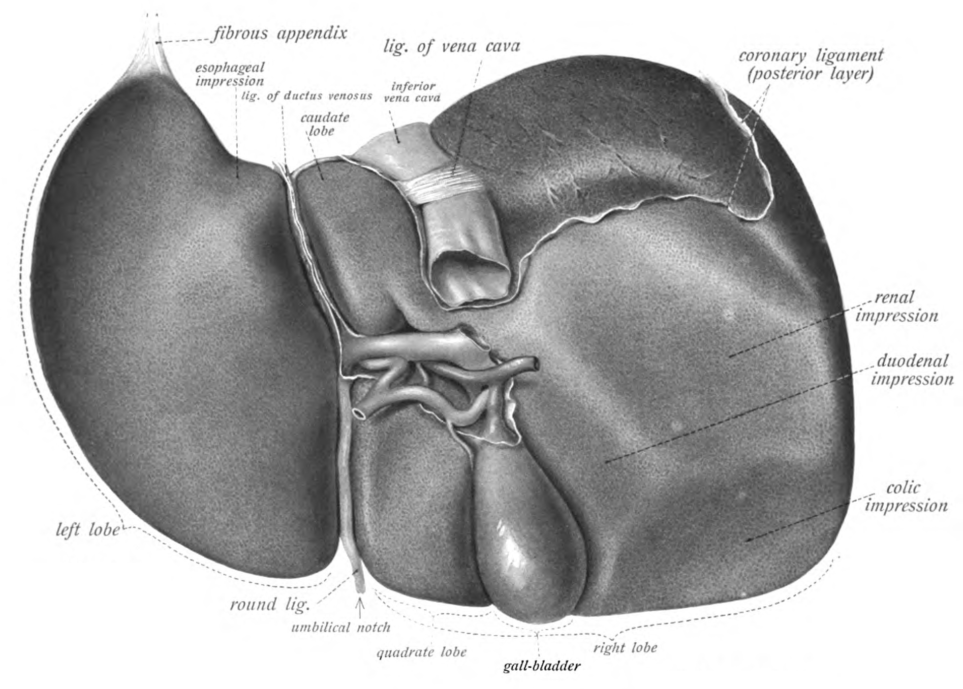 An anatomical illustration from the 1906 edition of Sobotta's Atlas and Text-book of Human Anatomy with English terminology.